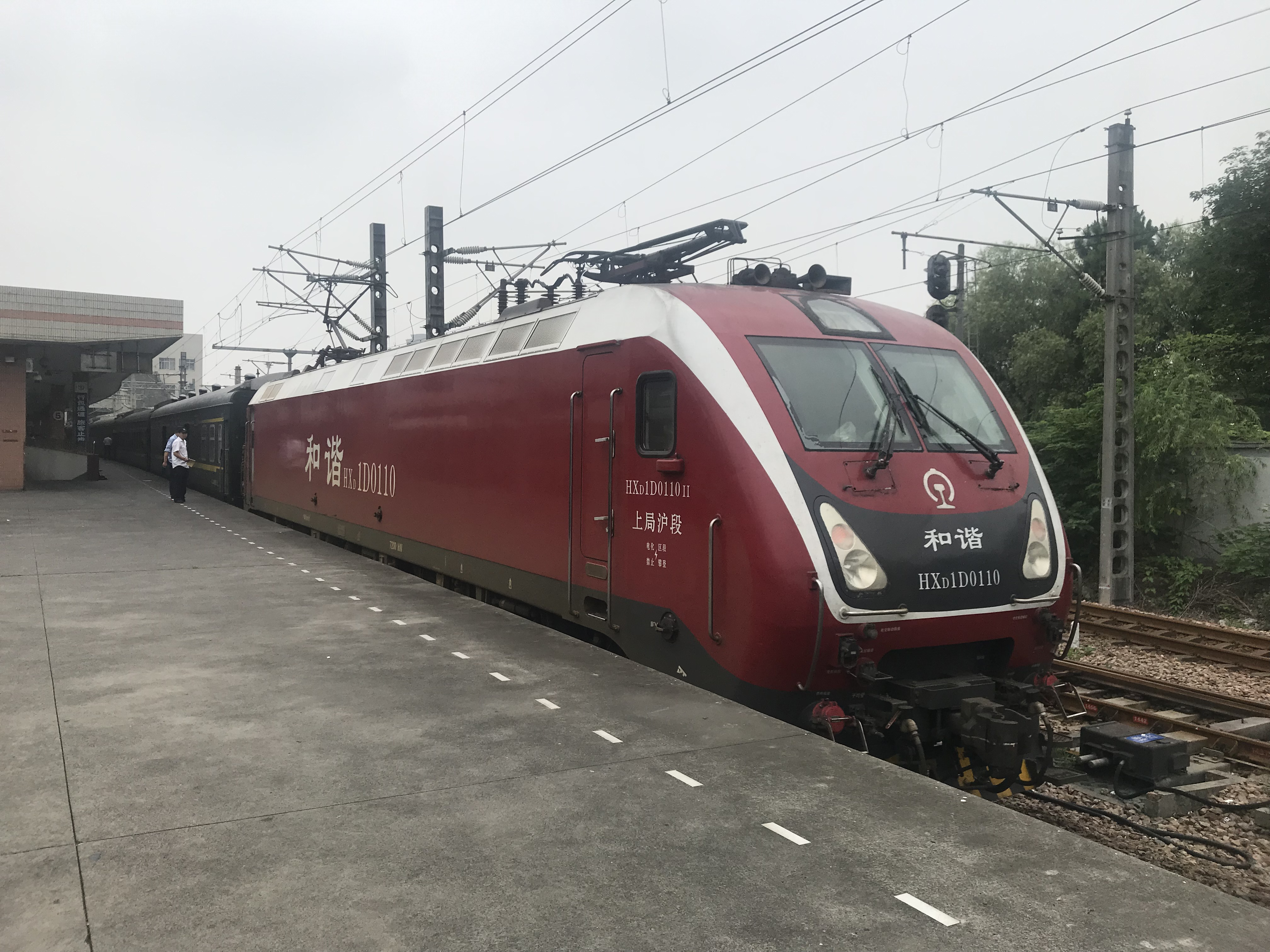 201907 HXD1D-0110 hauls K465 at Hangzhou Station